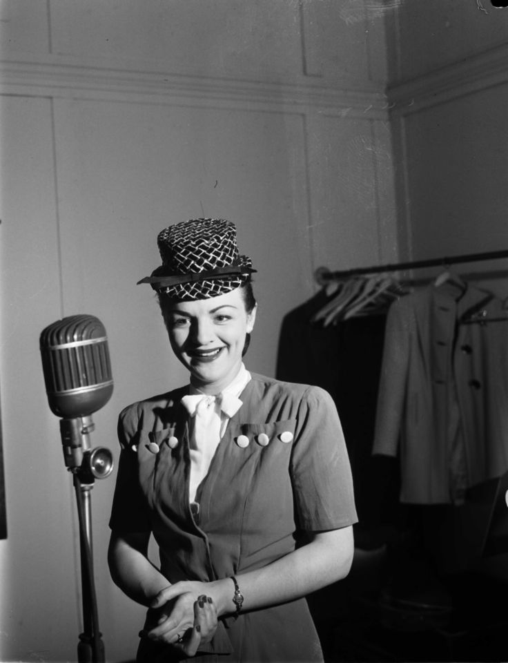 The popular singer Alys Robi during the recording of the radio show "Revoir Paris".